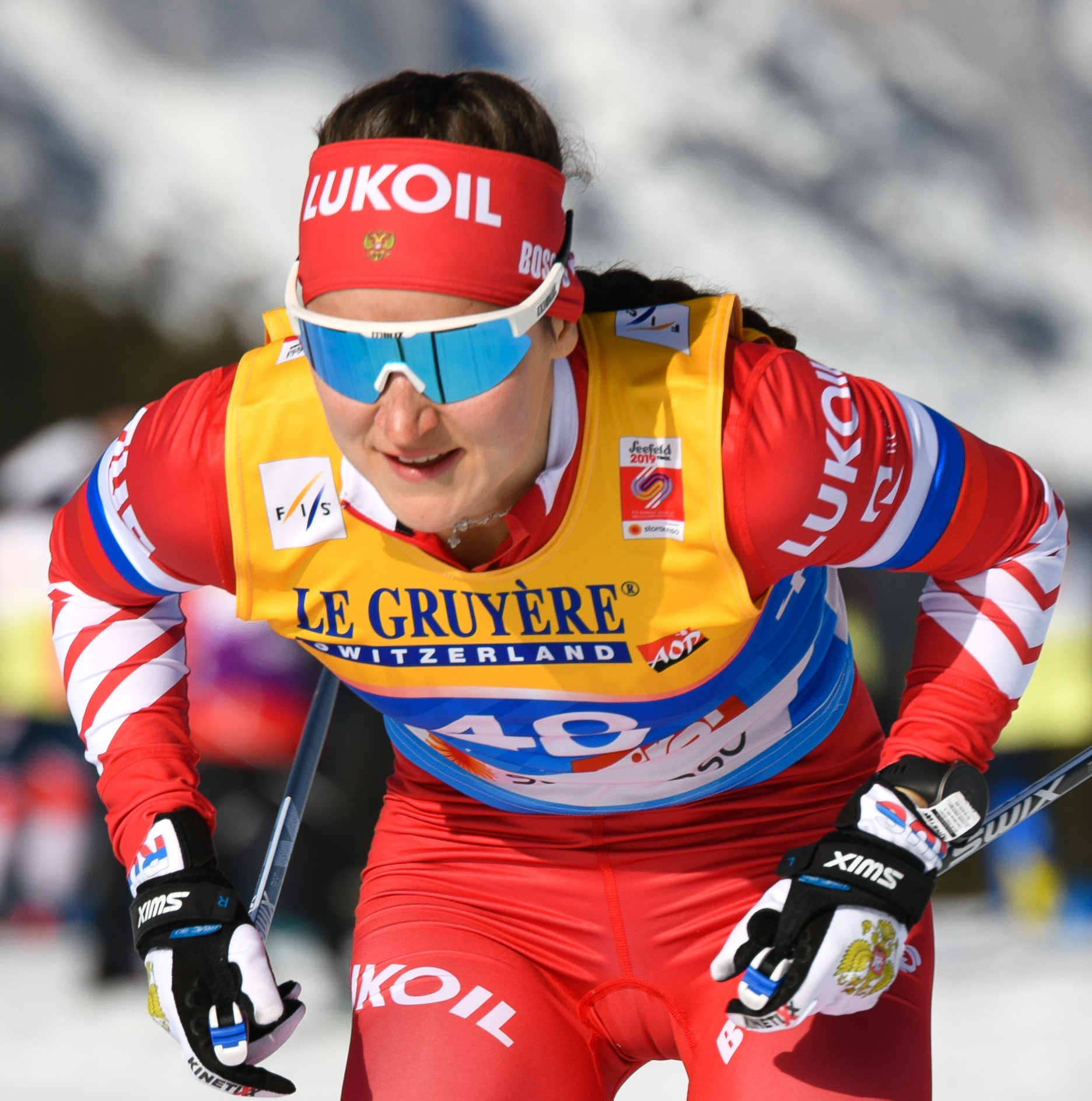 FIS Nordic Wolrd Ski Championships Seefeld 2019 - Ladies Cross Country 10km. Picture shows Yulia Belorukova (RUS).